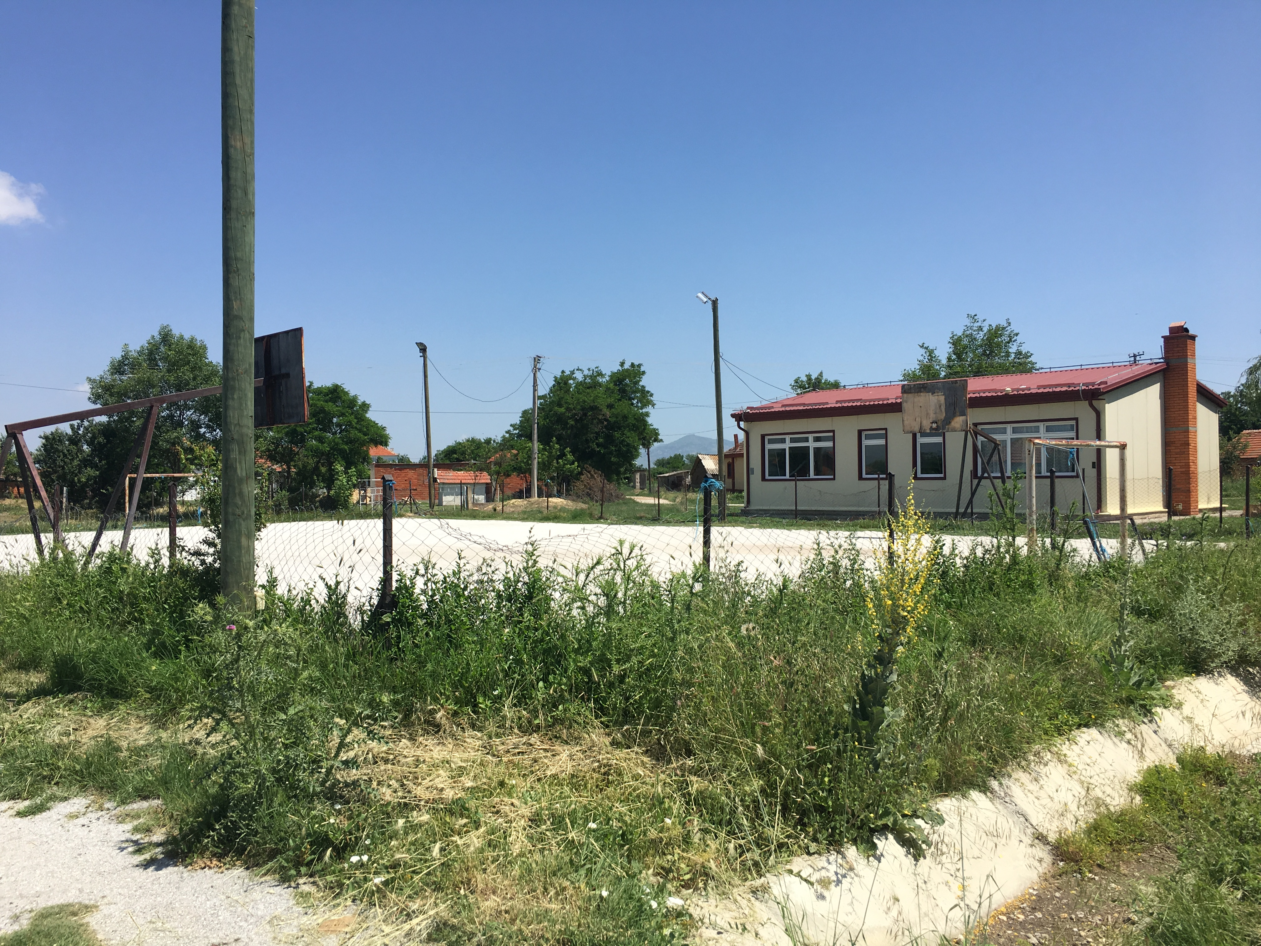 The primary school in the village of Dalbegovci